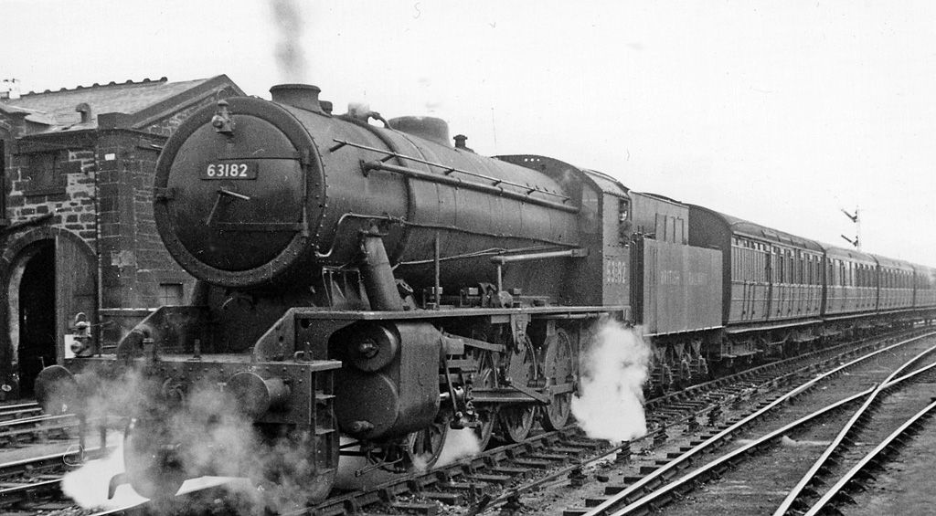 Empty local train at St Margaret's with unusual locomotive. View eastwards at St Margaret's Locomotive Depot, Piershill on the ex-North British Edinburgh - Berwick East Coast Main Line. On the day after the ECML had been blocked by violent floods washing away many railway bridges in the Borders, an ex-War Department 'Austerity' 2-8-0 (No. 63182) has been pressed into working a set of suburban coaches into Edinburgh Waverley.